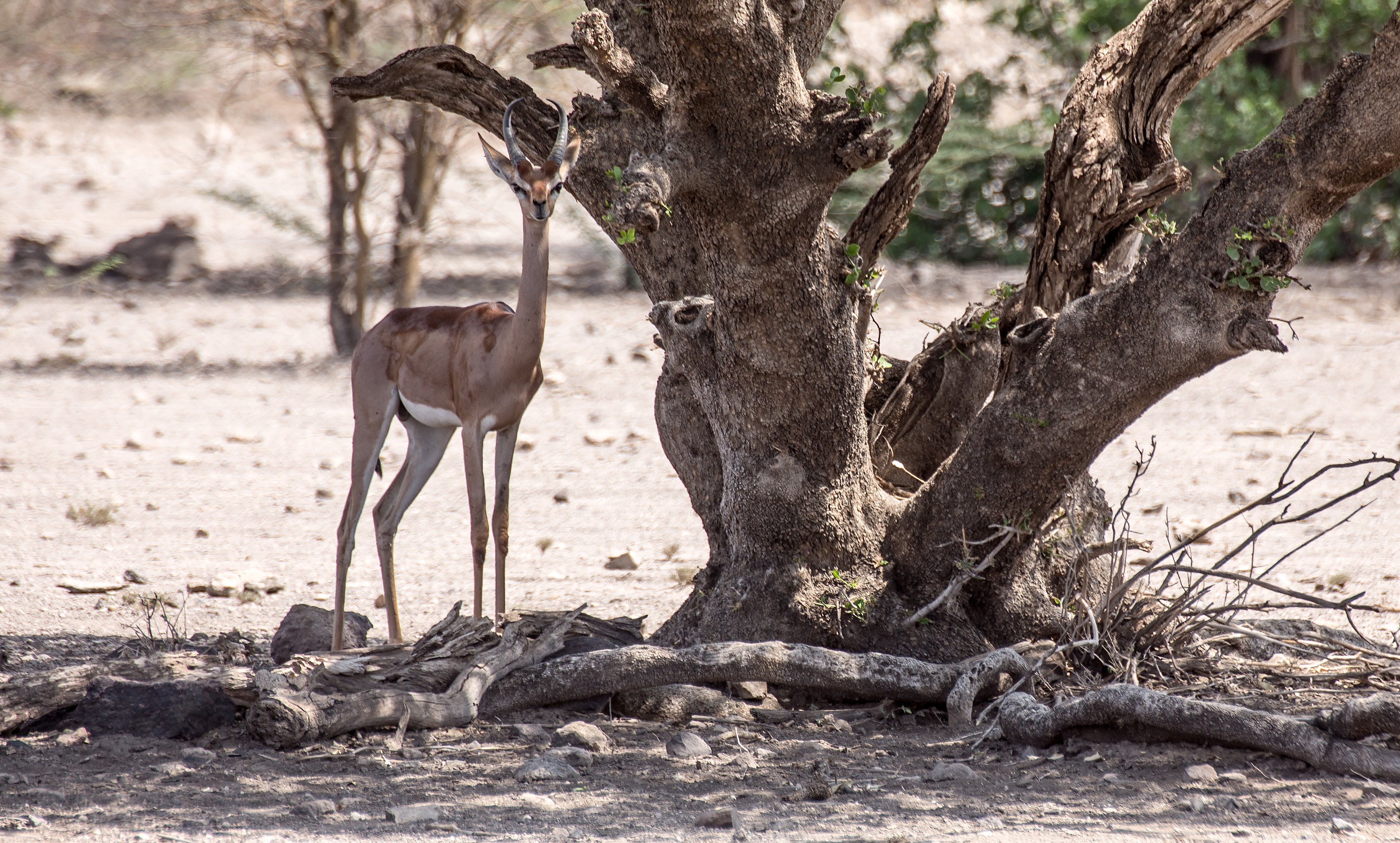 Gerenuk in the wild in Ethiopia